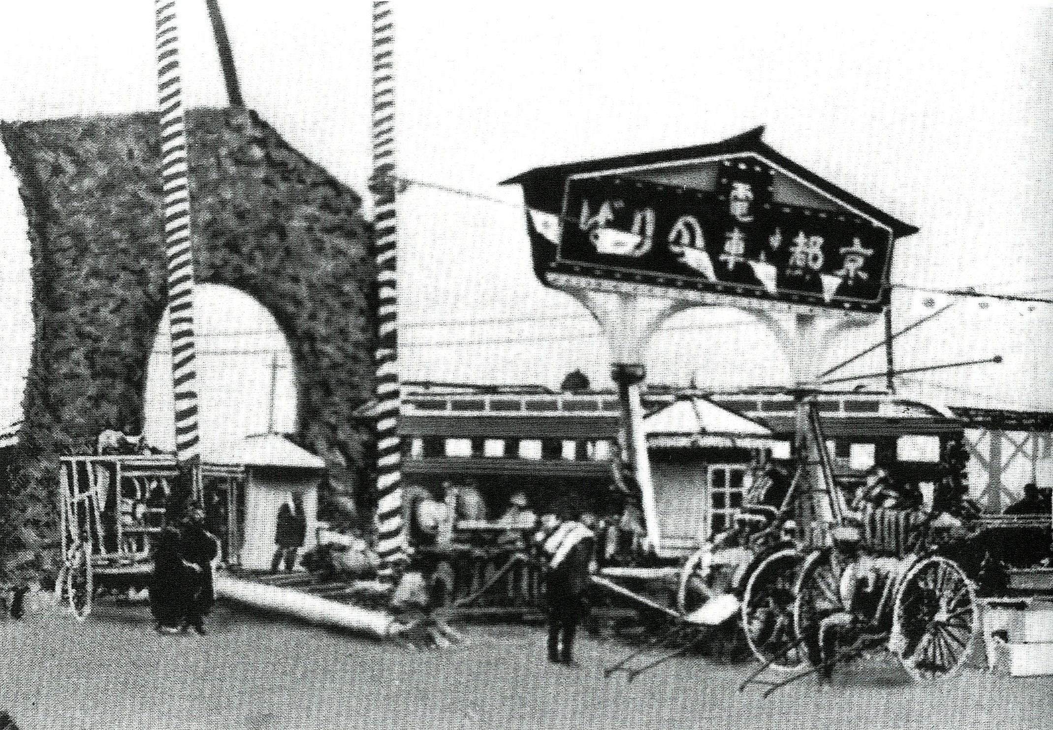 Original Temmabashi station, 1910.